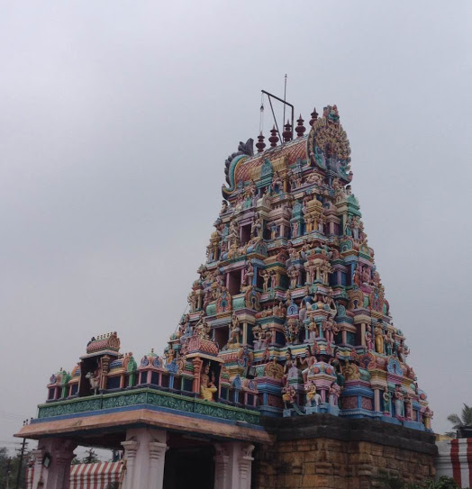 Temple entrance